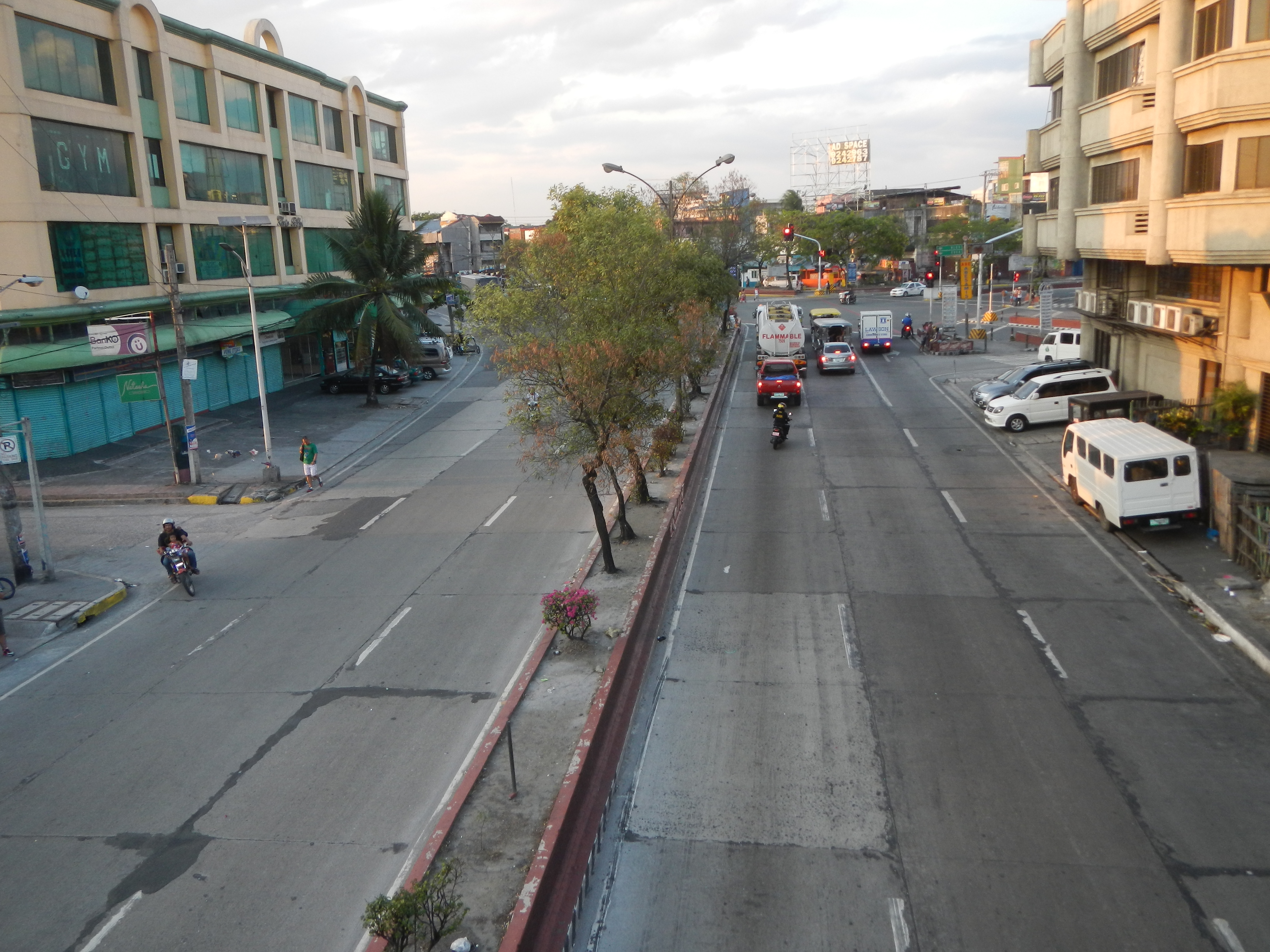 Sunsets in Quezon City in A. Bonifacio Market upon Pedestrian overpass in Bonifacio Avenue Andres Bonifacio Avenue or A. Bonifacio Avenue a major road in Manila and Quezon City which carries Radial Road 8 between Blumentritt Road and Epifanio de los Santos Avenue (EDSA) at the borders between Manila's Santa Cruz, Manila District and Quezon City and Caloocan; it intersects with Del Monte Avenue and 5th Avenue before coming to an interchange with EDSA and North Luzon Expressway in Balintawak, upon the Metro Manila Skyway Stage 3 Skyway 3 constructions, Legislative districts of Quezon City Districts 1 and 6, Barangays of Quezon City, N. S. Amoranto (La Loma) and San Jose (La Loma), neart Balingasa (A. Bonifacio Kalapati), Quezon City.